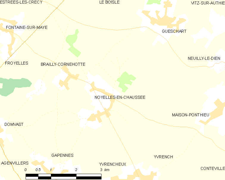 Map of French municipality Noyelles-en-Chaussée